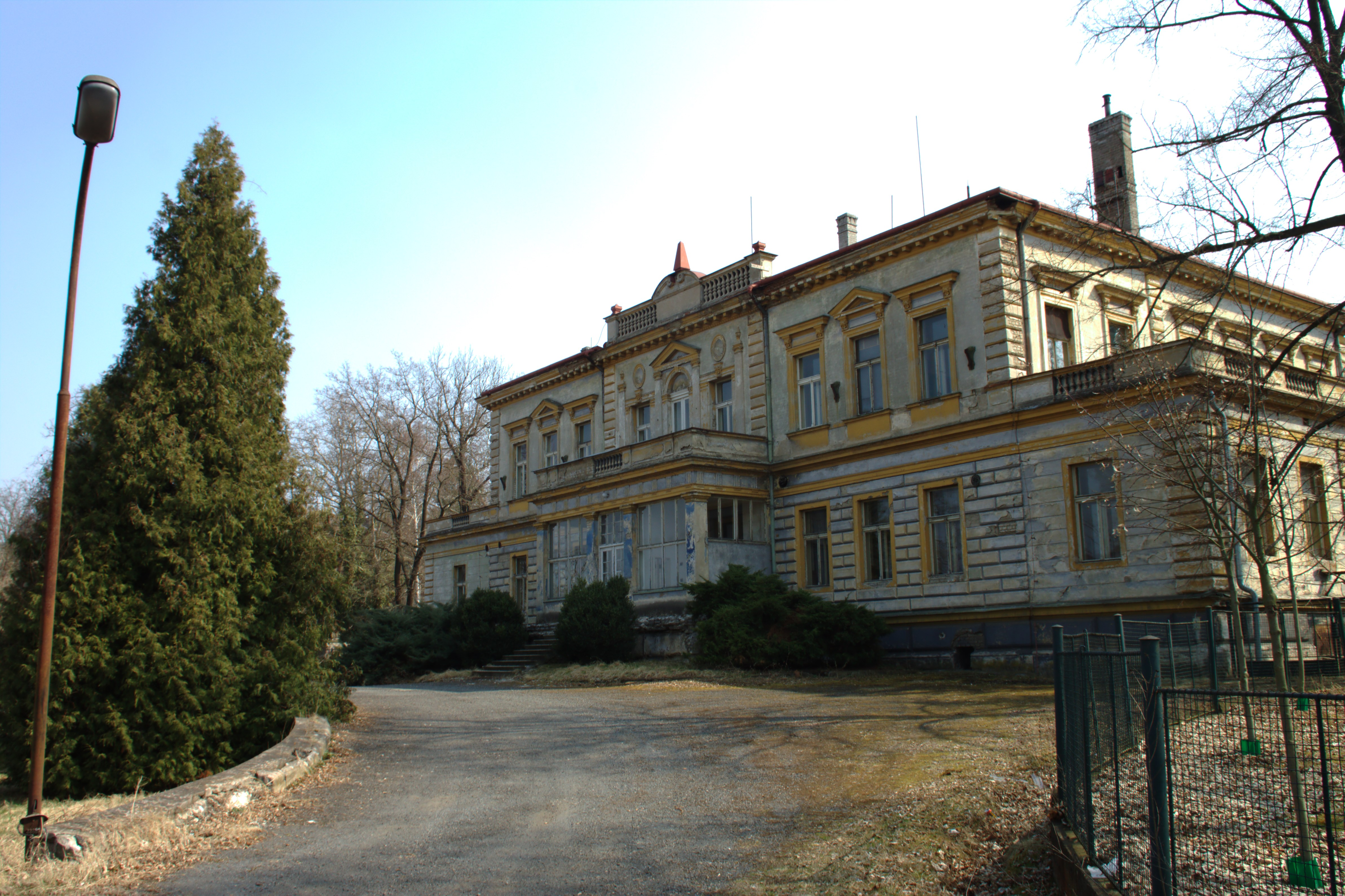 An abandoned mansion in Králův Dvůr-Karlova Huť, Central Bohemian Region, CZ